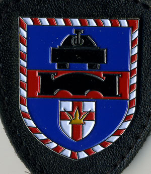 741st Armored Engineers Company